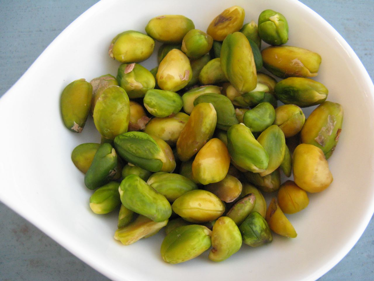 Freshly blanched pistachios for dessert cookery. These should be dried before storage.